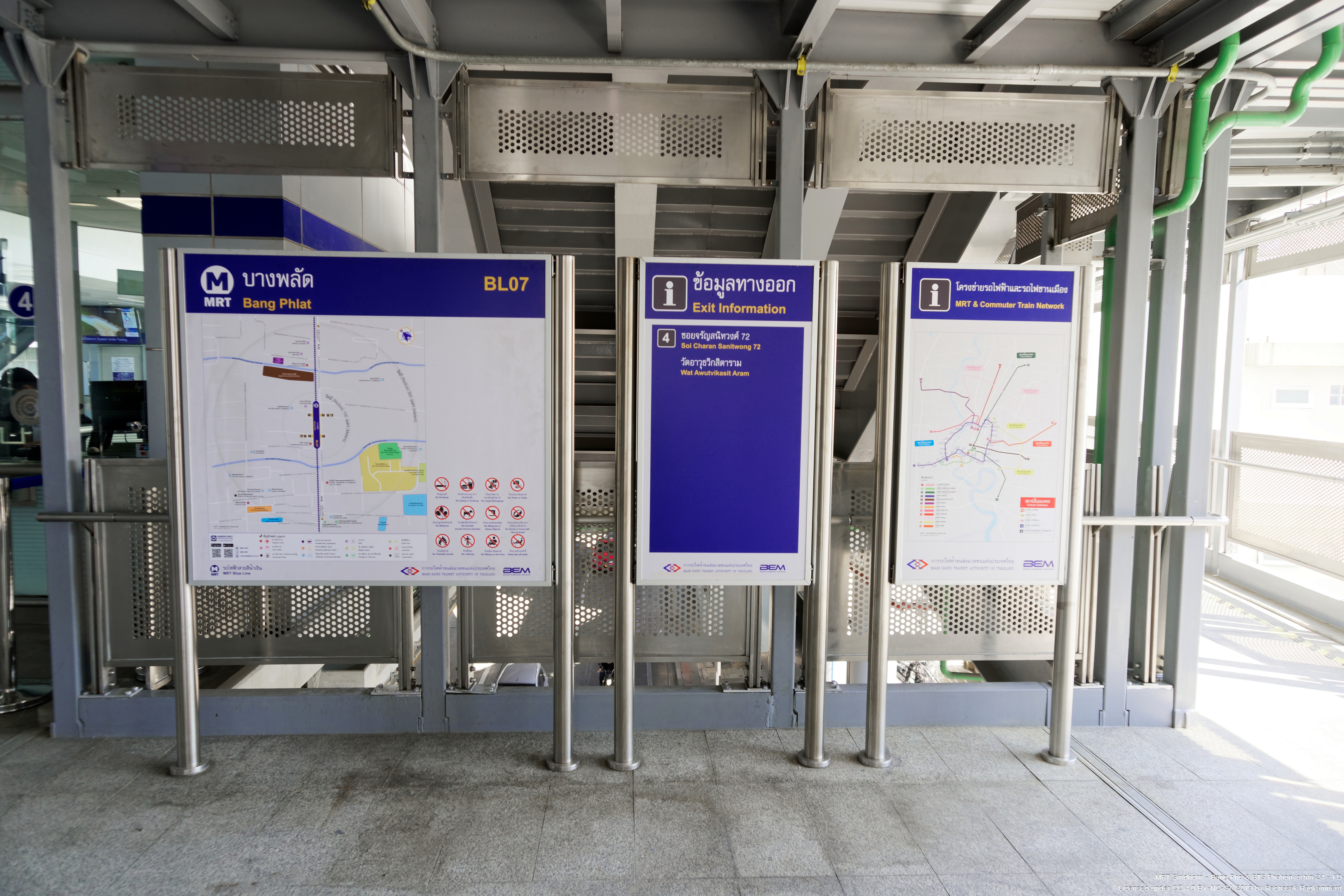 MRT Bang Plad - Exit 4 info boards